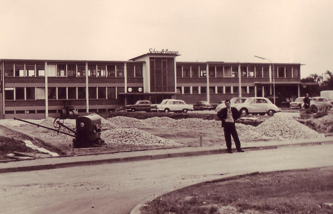 Schaub-Lorenz Fertigungswerk Rastatt, 1959